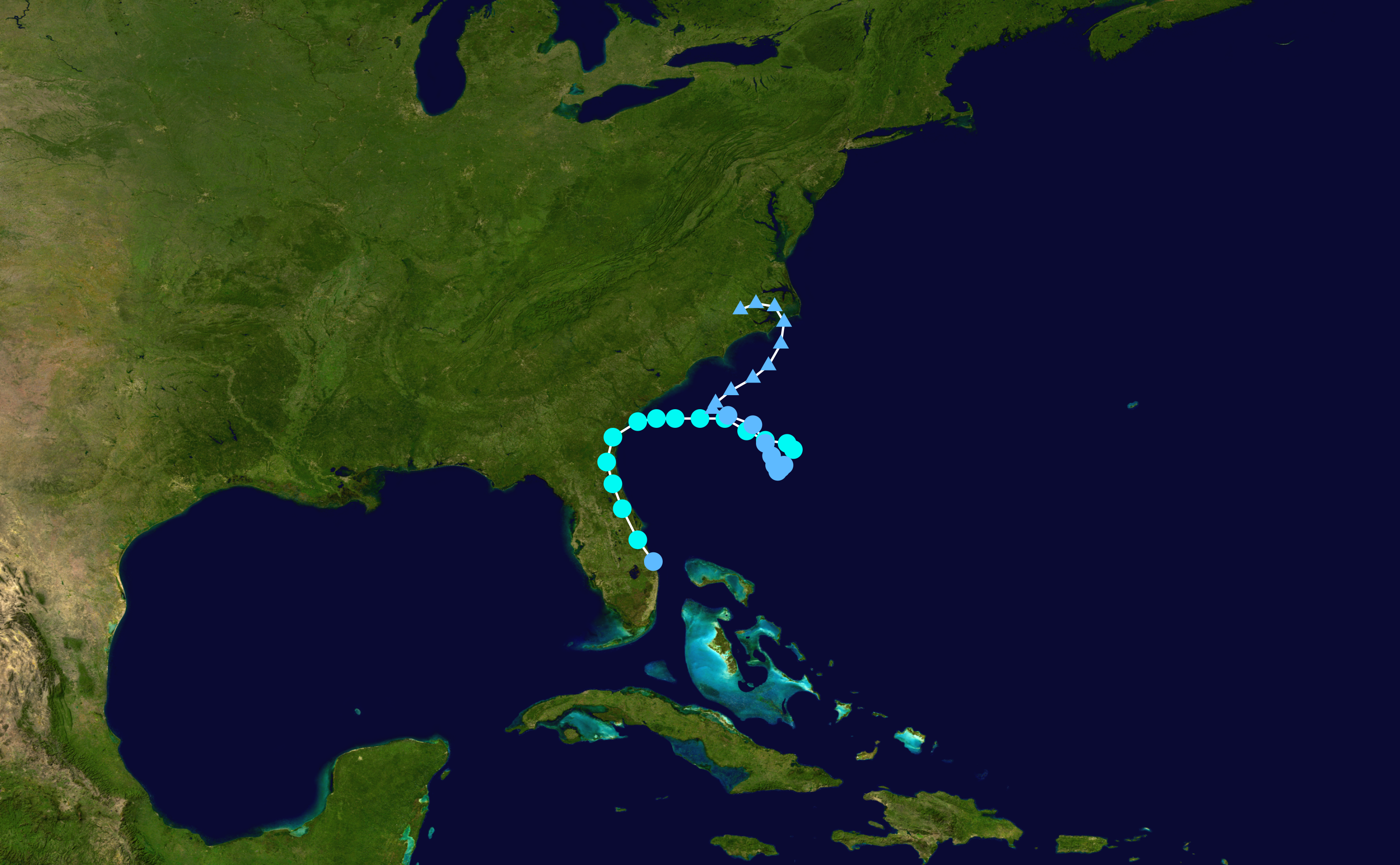 Track map of Tropical Storm Julia of the 2016 Atlantic hurricane season. The points show the location of the storm at 6-hour intervals. The colour represents the storm's maximum sustained wind speeds as classified in the Saffir–Simpson scale (see below), and the shape of the data points represent the nature of the storm, according to the legend below. Saffir–Simpson scale Tropical depression≤38 mph≤62 km/h Category 3111–129 mph178–208 km/h Tropical storm39–73 mph63–118 km/h Category 4130–156 mph209–251 km/h Category 174–95 mph119–153 km/h Category 5≥157 mph≥252 km/h Category 296–110 mph154–177 km/h Unknown Storm typeTropical cycloneSubtropical cycloneExtratropical cyclone / Remnant low / Tropical disturbance